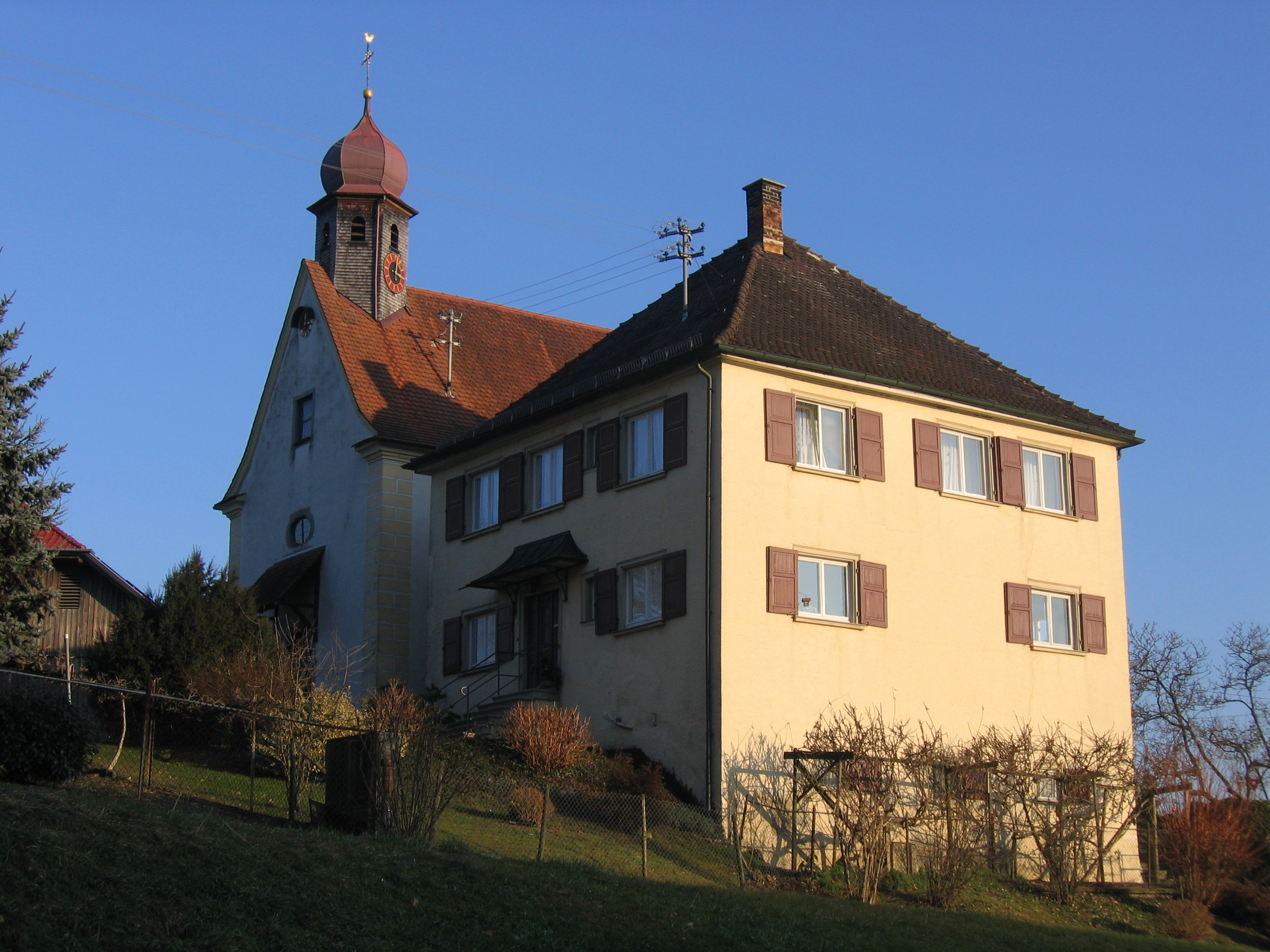 Germany - Baden-Württemberg - Bodenseekreis - Kressbronn am Bodensee - Schleinsee: "Assumption of Mary-Chapel" with former chaplain